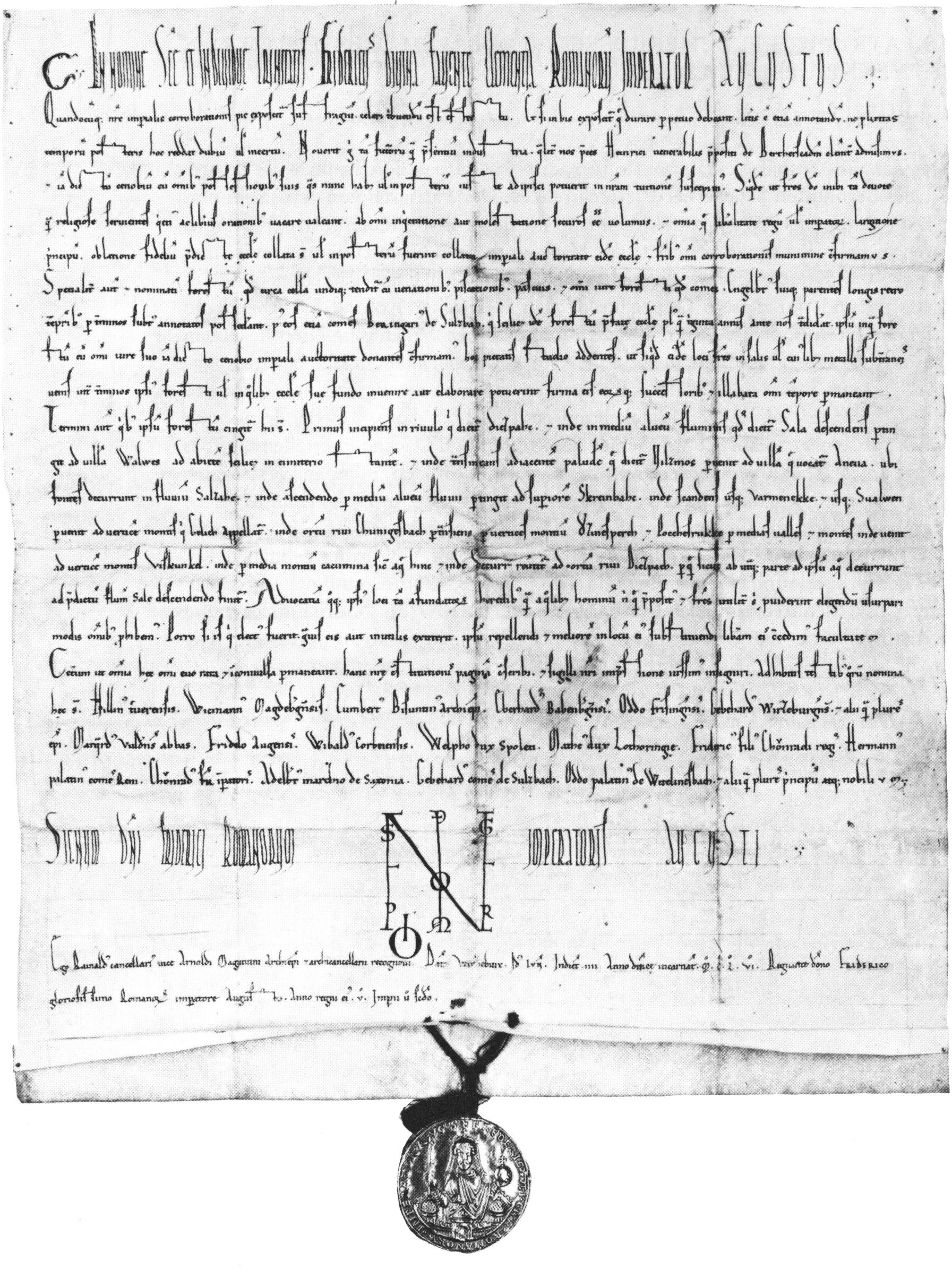 Charter of emperor Frederick I for Stift Berchtesgaden, issued on June 13th, 1156. München, Bayerisches Hauptstaatsarchiv, Kaiserselekt 490.